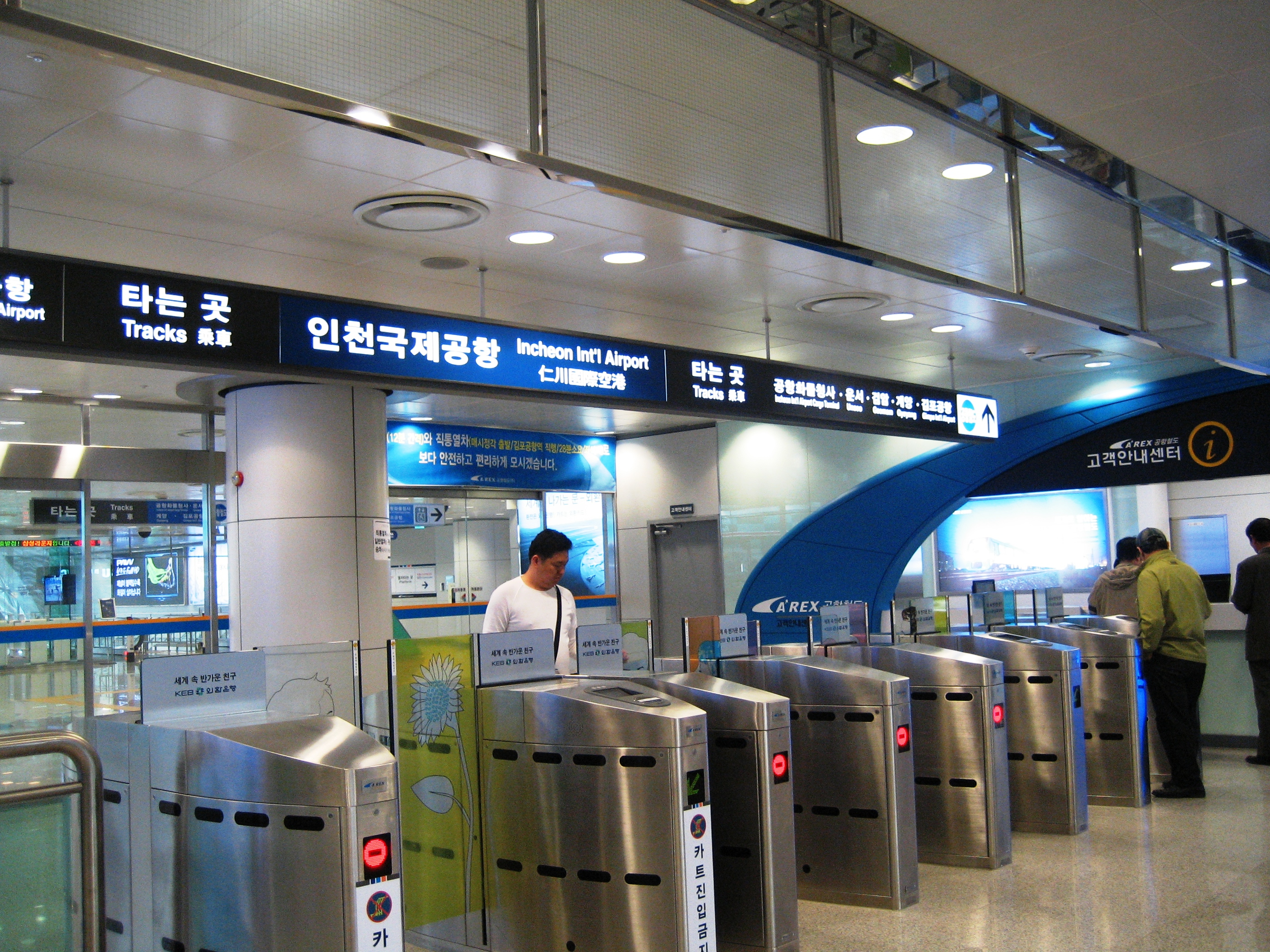 A'REX. Automatic gates in Incheon International Airport Station.